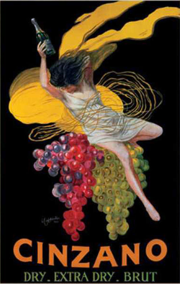 Cinzano 1920